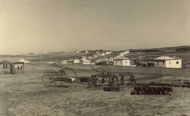 Mishmeret, Settlements in Israel